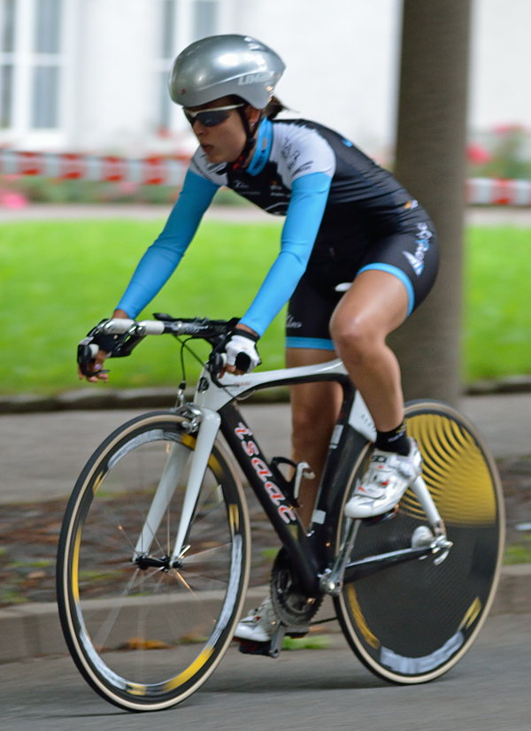 Annelies van Doorslaer from the Kleo Ladies Team during the Women's Tour of Thuringia 2012 in Zwickau, Germany.